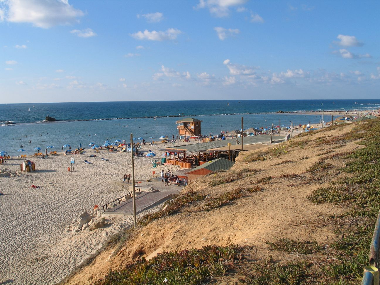 Bat Yam beach, north. Photo taken by me, User:Bukvoed (2005).